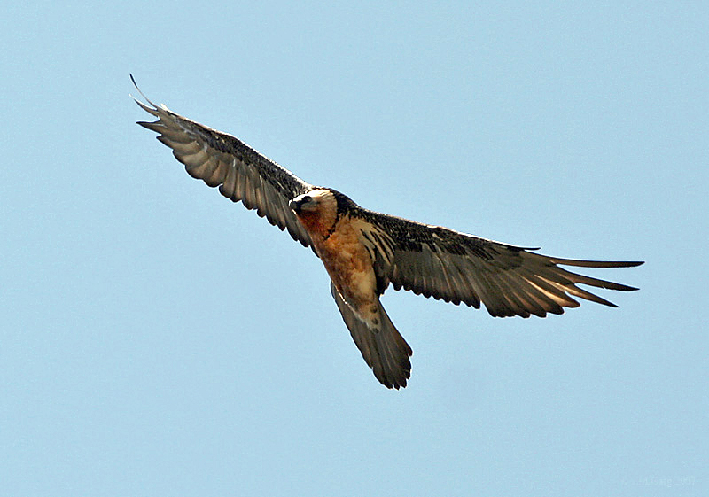 Lammergeier Gypaetus barbatus in Kullu District of Himachal Pradesh, India. Finally after many years I had my destiny with this Beautiful & Mysterious birds of the Himalayas. Not because I saw it for the first time but because I got a pics. I always wanted. It is difficult to capture it as it hardly gives you any time. One round & it is nowhere to be seen unlike the majestic Himalayan Griffon. Moustaches, which can be seen here, are its special attraction. As also its stated habit of dropping bones from a height on the rocks to break them, for its favourite delicious 'bone-marrow' inside the bones. It has been seen even at the height of 7500 mtr. during Everest Expeditions. Taken on 9/5/07 on way to Tilla Lotani (12,500 ft.) from Zirmi Thaatch (11000 ft.) on trek to Sar Pass in Himachal.